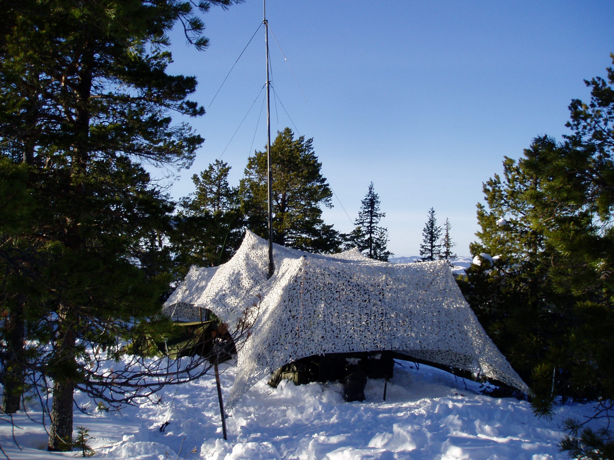 Bandvagn 206-based radio relay station from the Norwegian Army Communications battalion at Battle Griffin 2005.